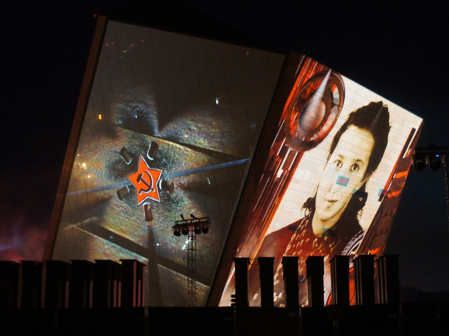 Muzeum II Wojny Światowej - Poland first to fight - 2019